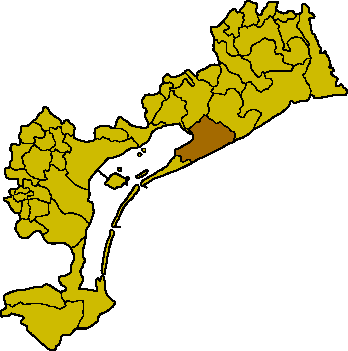 Location of Jesolo in the province of Venice.